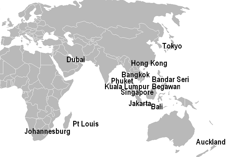 Cities with a direct international link to PER